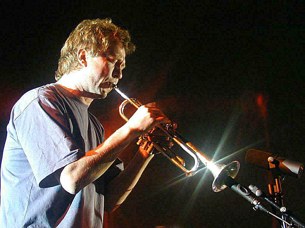 Nils Petter Molvær, playing his trumpet at Global Tempera 2001, in the old Fokus Kino cinema building in Tromsø, Norway. Photo: Krister Brandser